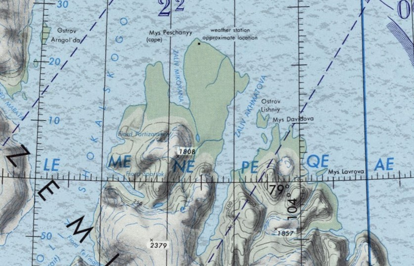 Lishny Island. Section of 1:1,000,000 scale Operational Navigation Chart, Sheet B-3, 2nd edition.